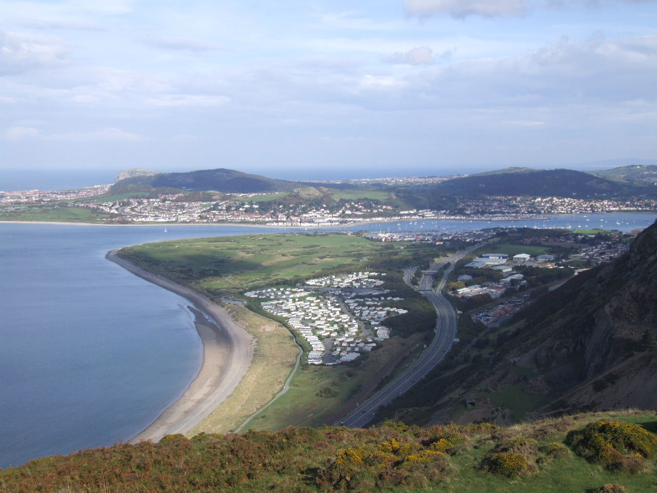 Morfa Conwy with Afon Conwy, Deganwy and the Creuddyn peninsula from Penmaen-bach, Conwy County, Wales.